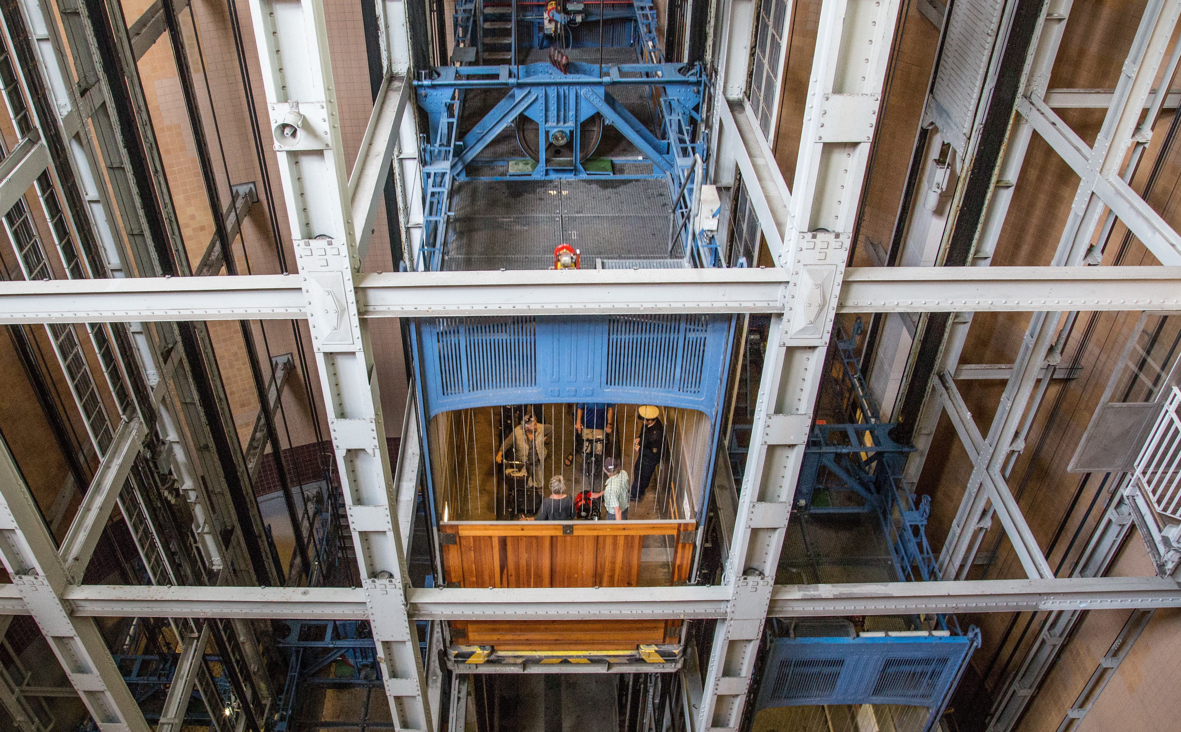 The Alter Elbtunnel, a 426m-long pedestrian and vehicle tunnel under the River Elbe in Hamburg, Germany.